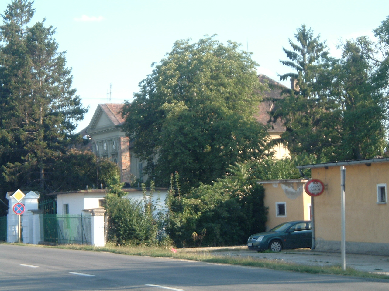 The Festetics mansion in Simaság